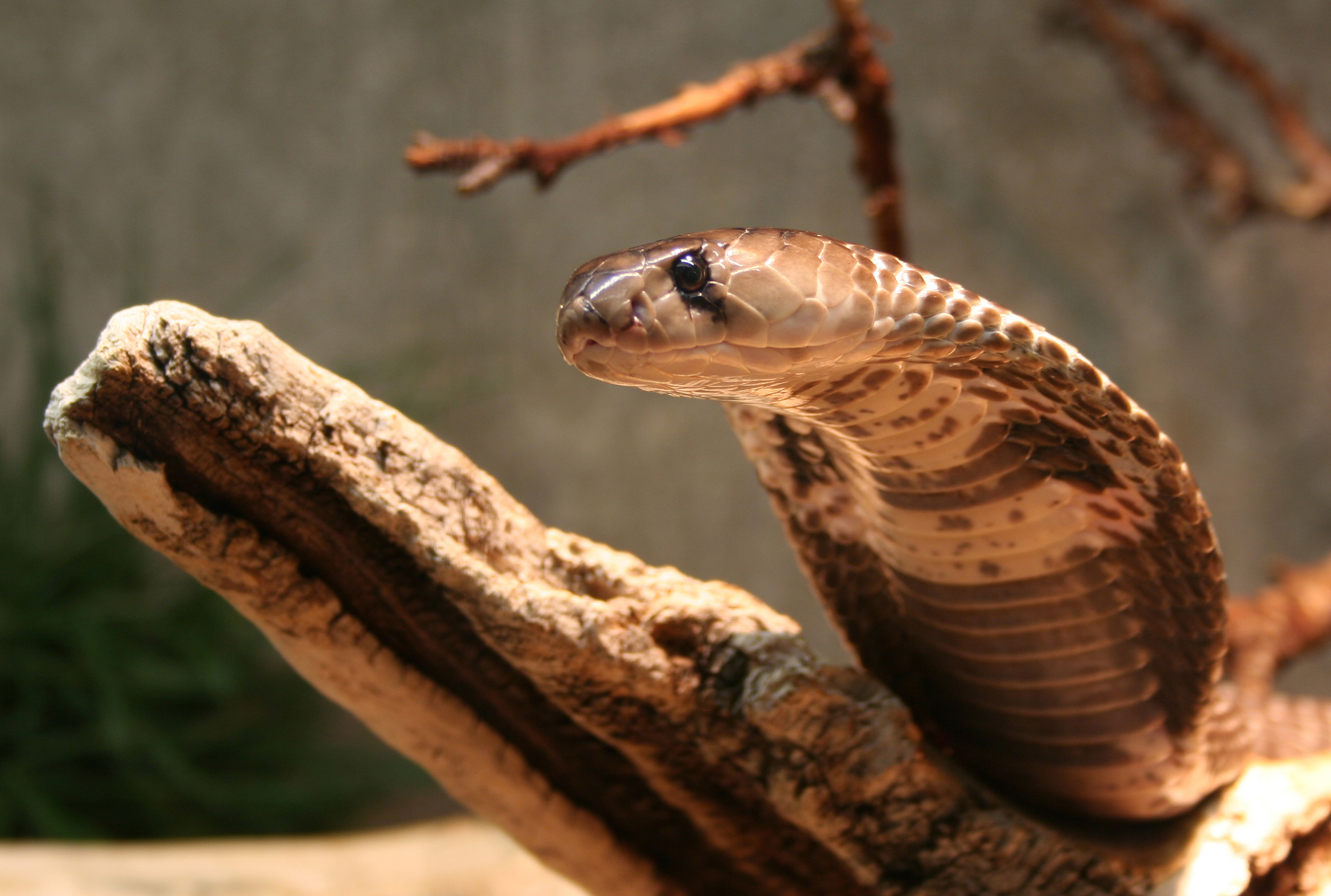 Indian cobra, Naja naja, Family: Elapidae